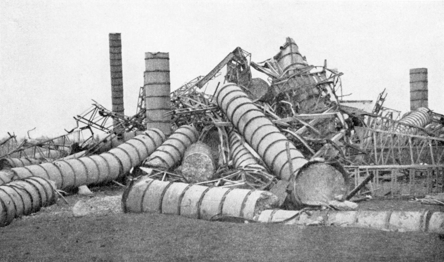 Ruins of Odinstårnet in Odense, Denmark. The tower was destroyed by Nazi collaborators in 1944